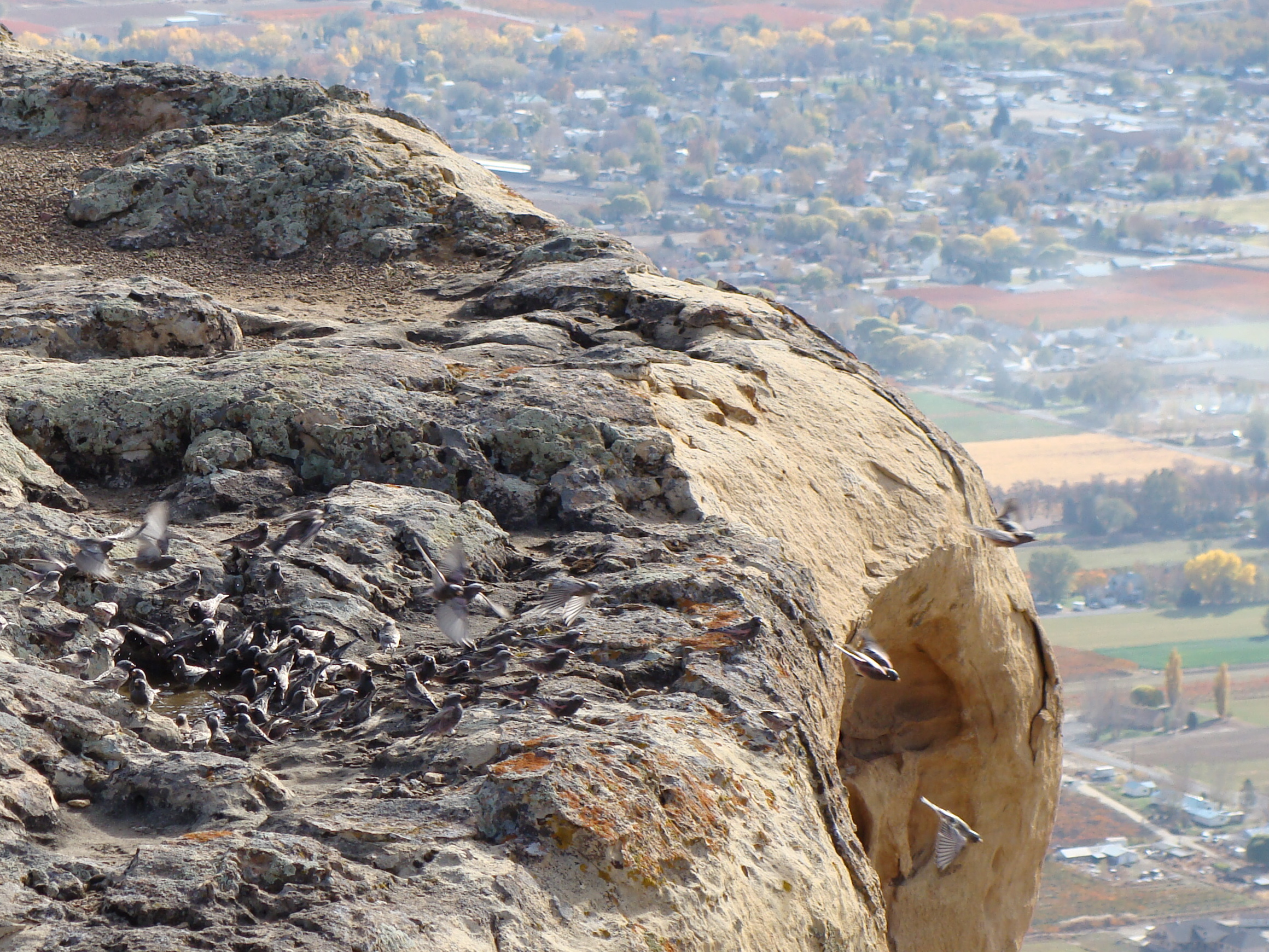 Black Rosy-Finch flock bathing, Mount Lincoln, Colorado.